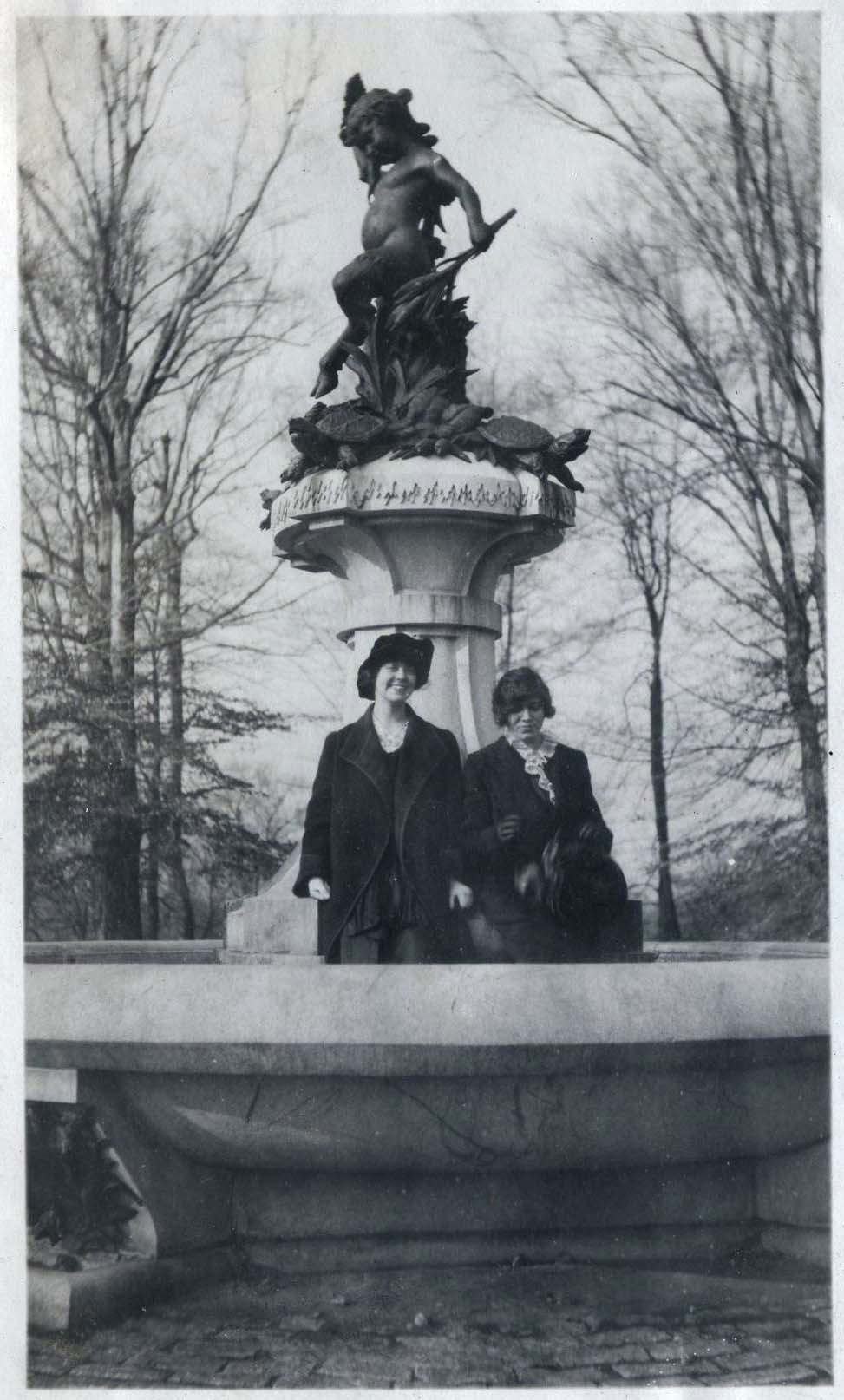 Enid Yandell's Hogan Fountain, Louisville Kentucky, USA ca. 1915